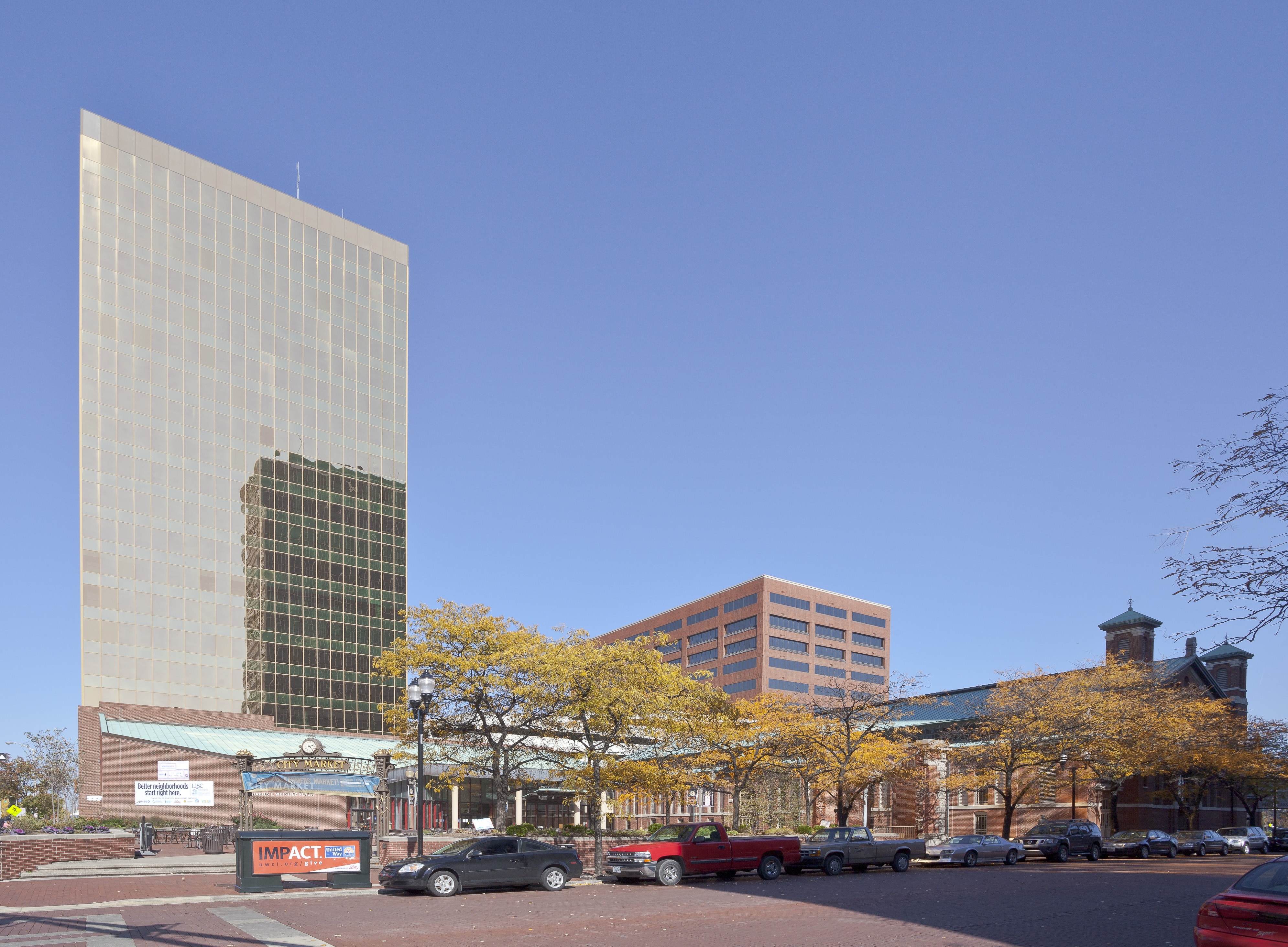 City Market, Indianapolis, USA